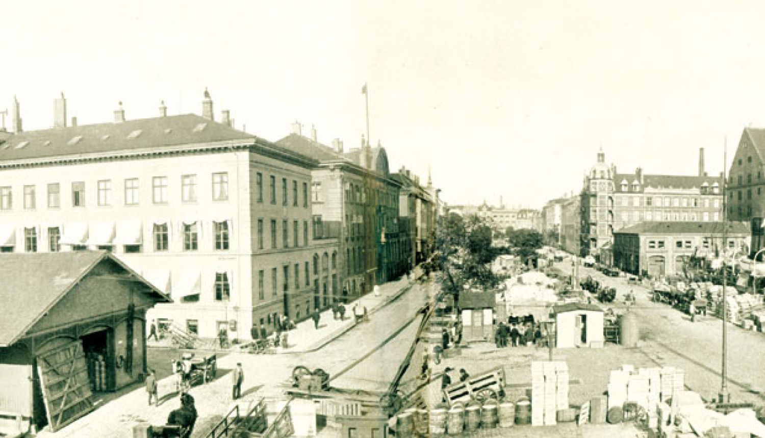 Sankt Annæ Plads in Copenhagen, Denmark